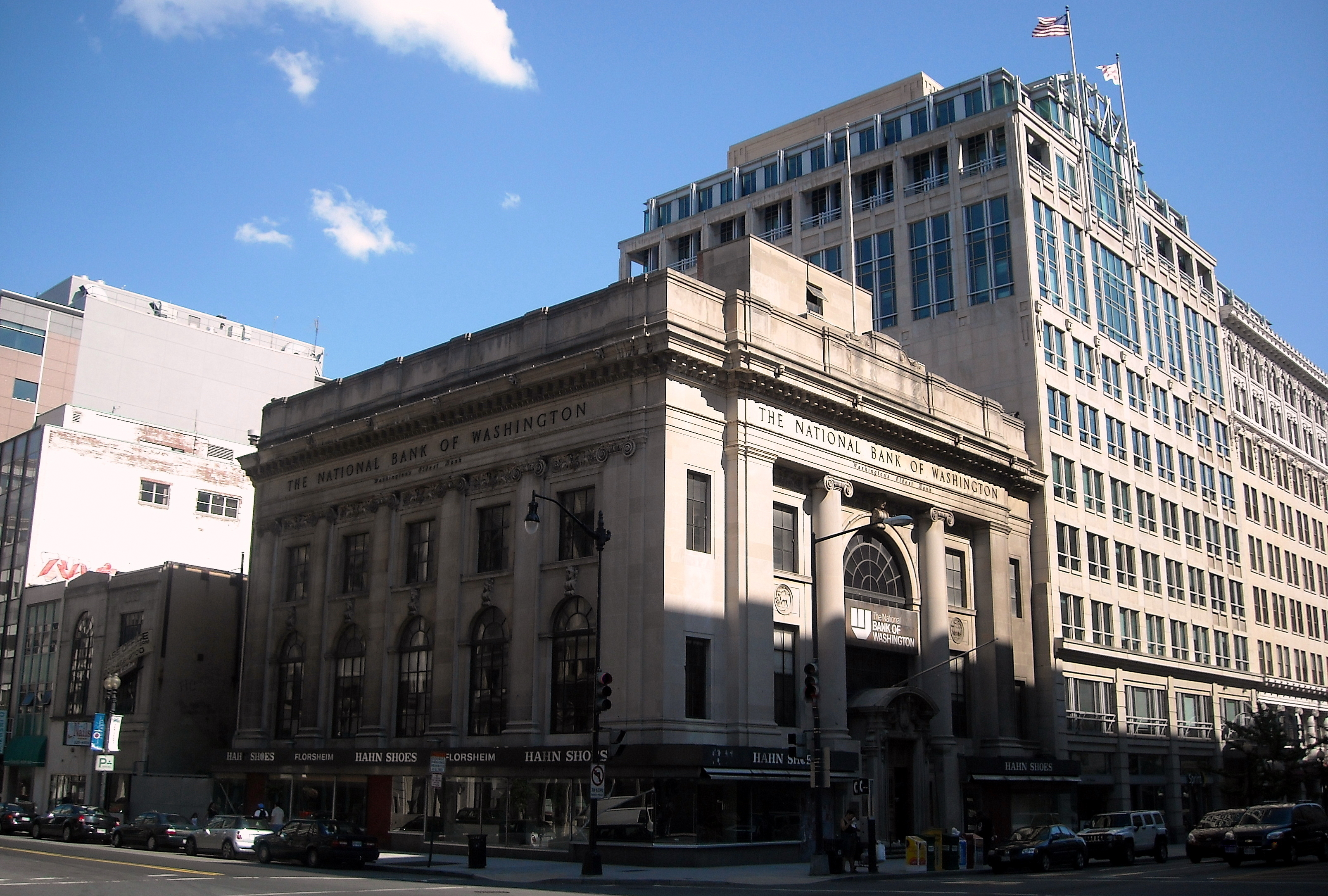 The National Bank of Washington (also known as the Federal-American National Bank or Hamilton National Bank) located at 615-621 14th Street, NW (14th & G) in the Penn Quarter neighborhood of Washington, D.C. The Classical Revival building was designed by Jules Henri de Sibour and Alfred C. Bossom in 1925. It's listed on the National Register of Historic Places and slated to become home of the Armenian Genocide Museum of America.